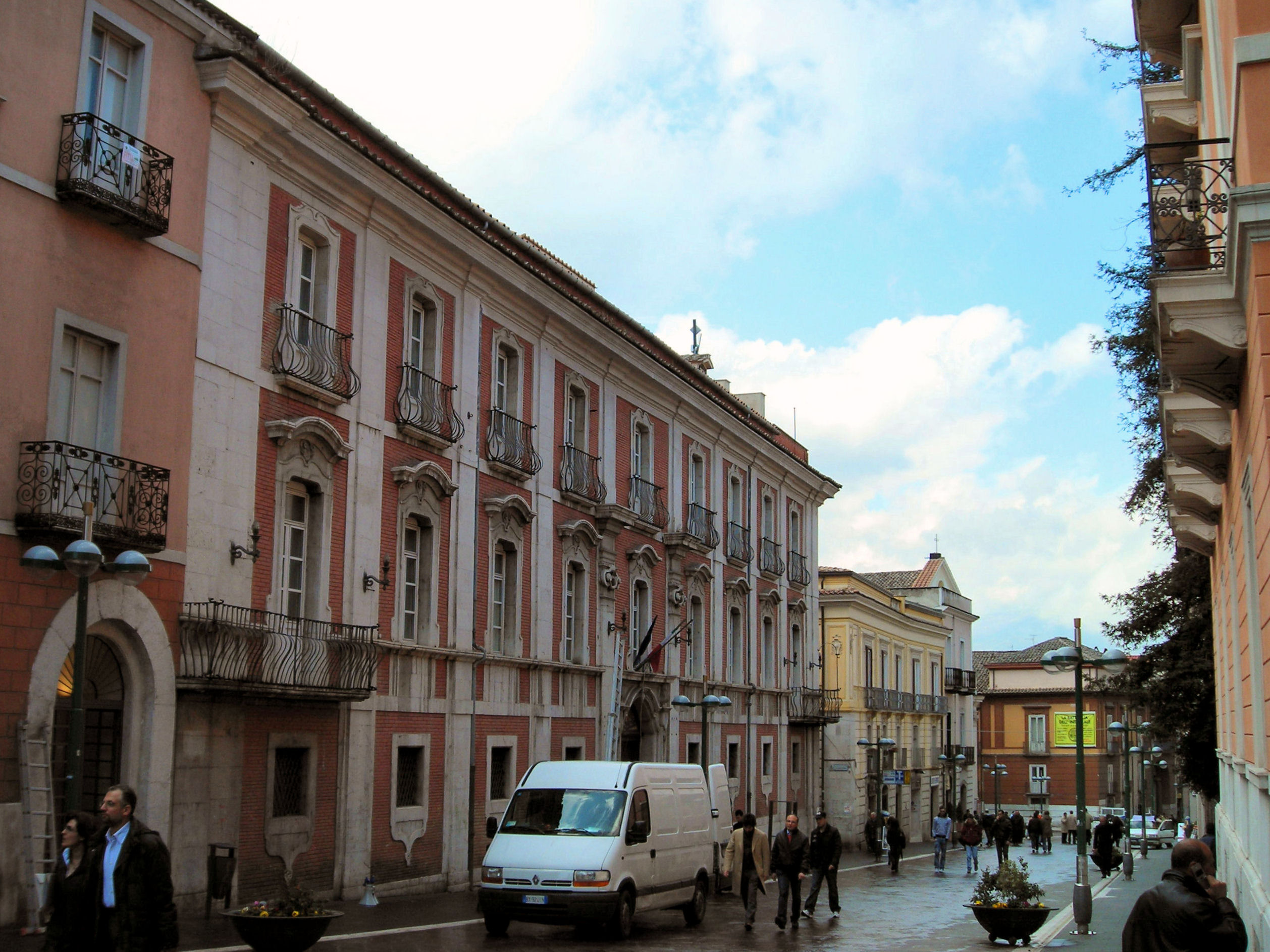 Terragnoli Palace, Benevento, seat of the Provincial Library